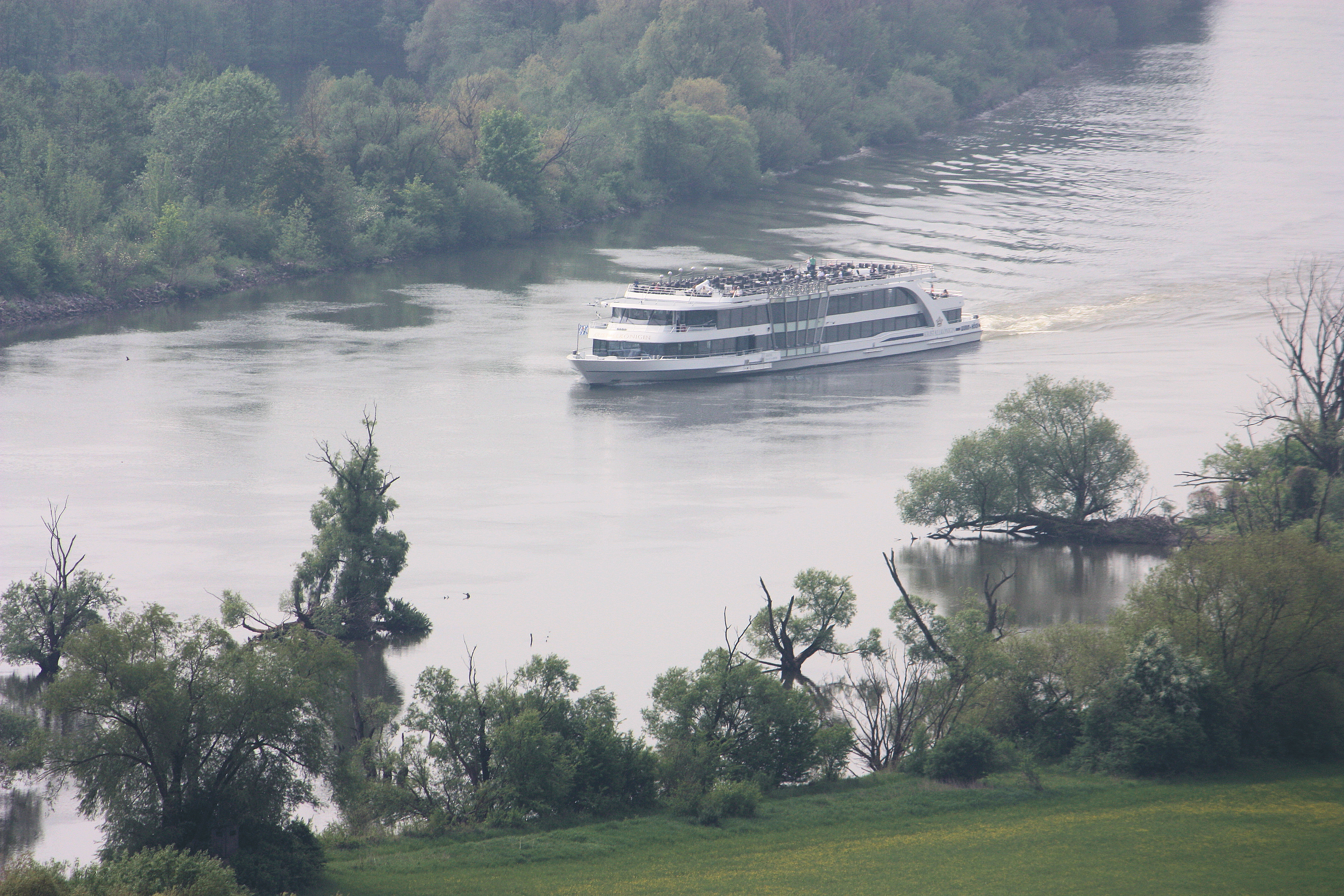 Donaustauf, view from the ruined castle to the Danube